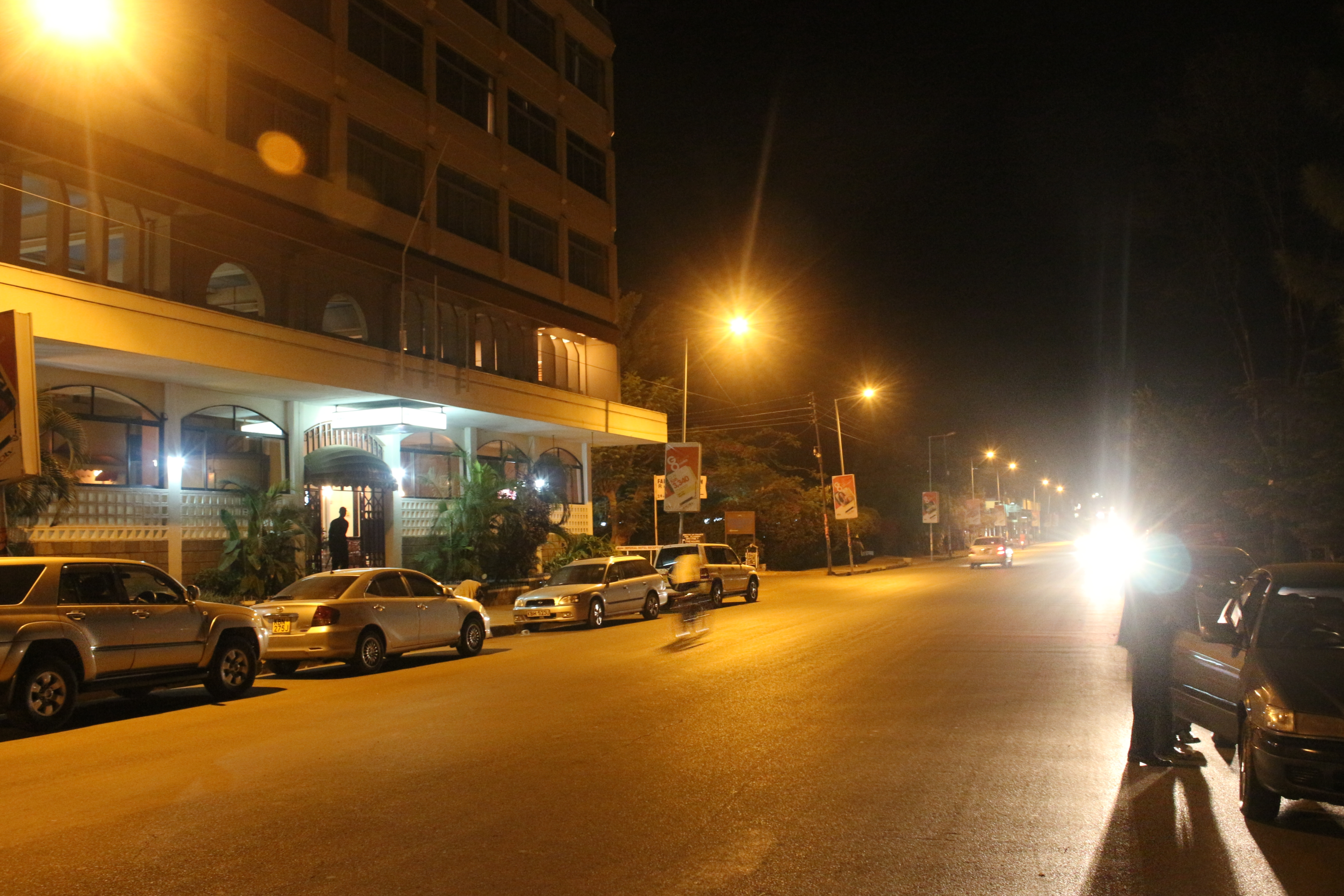 Picture of Kisumu at Night